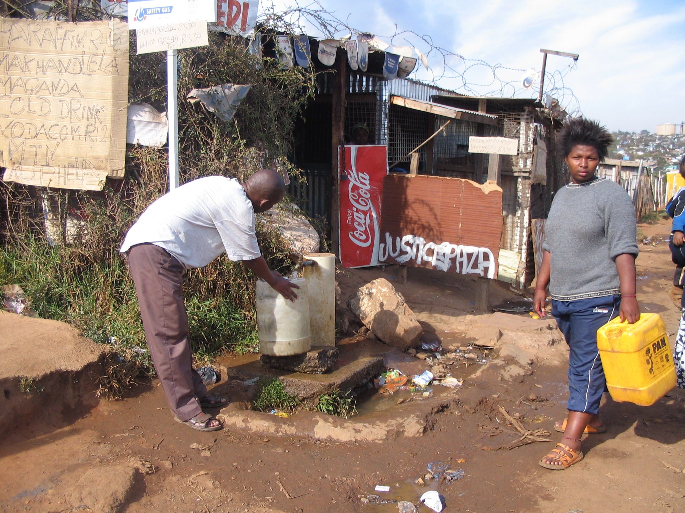 Soweto, South Africa Photograph taken: May 2005 E. Muench